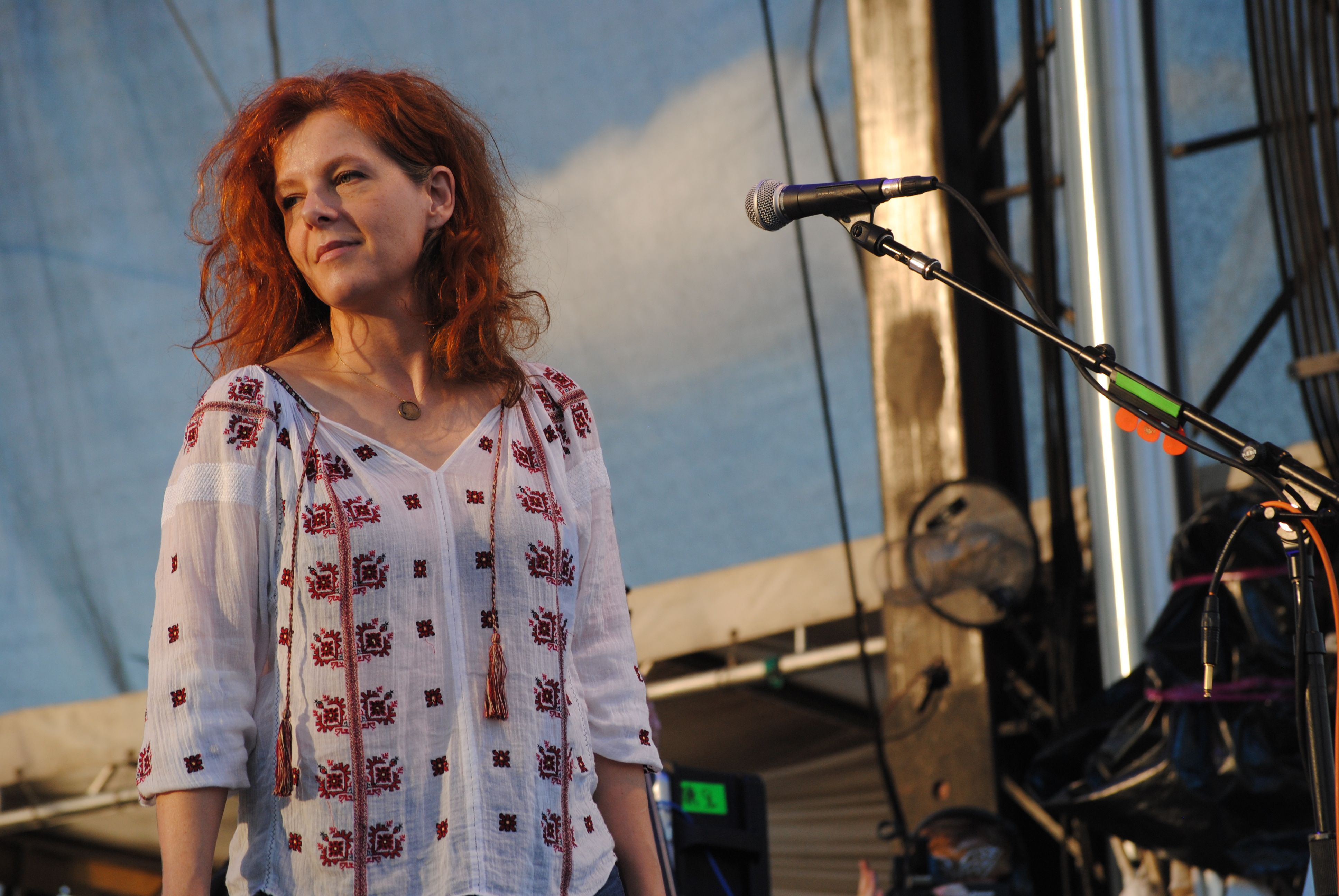 Neko Case performing at Forecastle Fest 2012